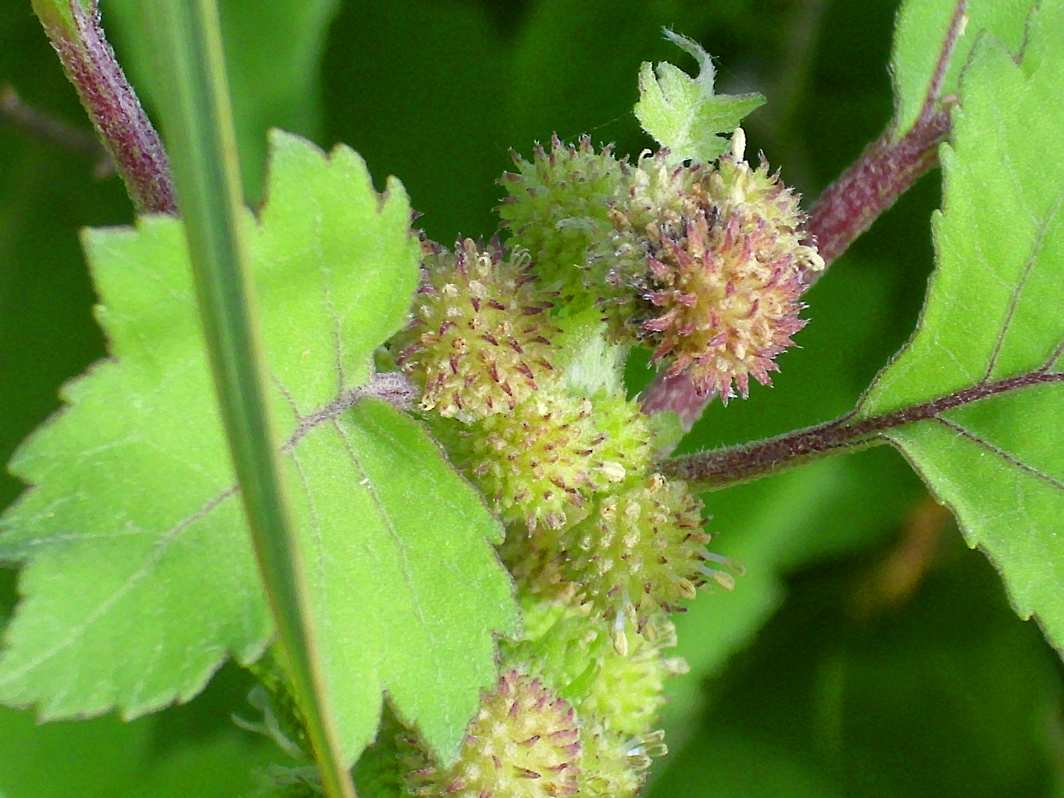 Xanthium strumarium flower close up Campo de Calatrava, Spain